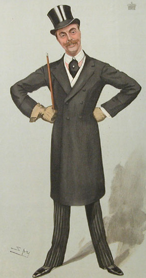 Cartoon of Victor Spencer. Caption reads "Conservative Whip".